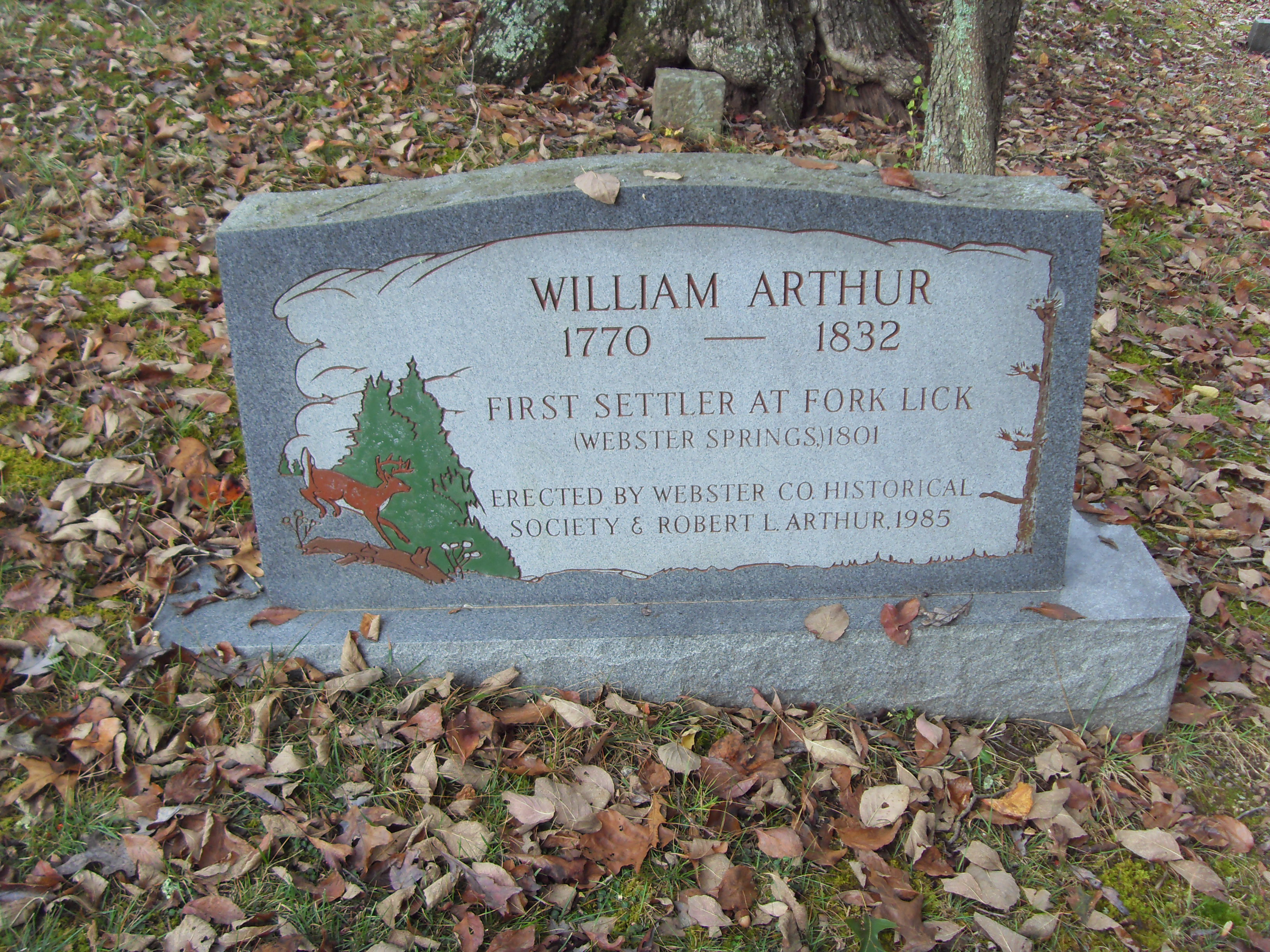 The tombstone erected near the actual burial site of William Arthur in his honor, as a founder of Fort Lick (now Webster Springs), WV.